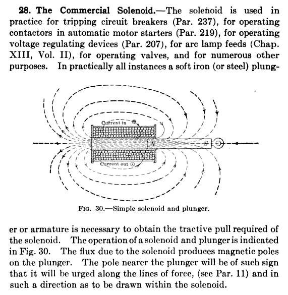 Book illustration and paragraph explaining the commercial solenoid as actuator